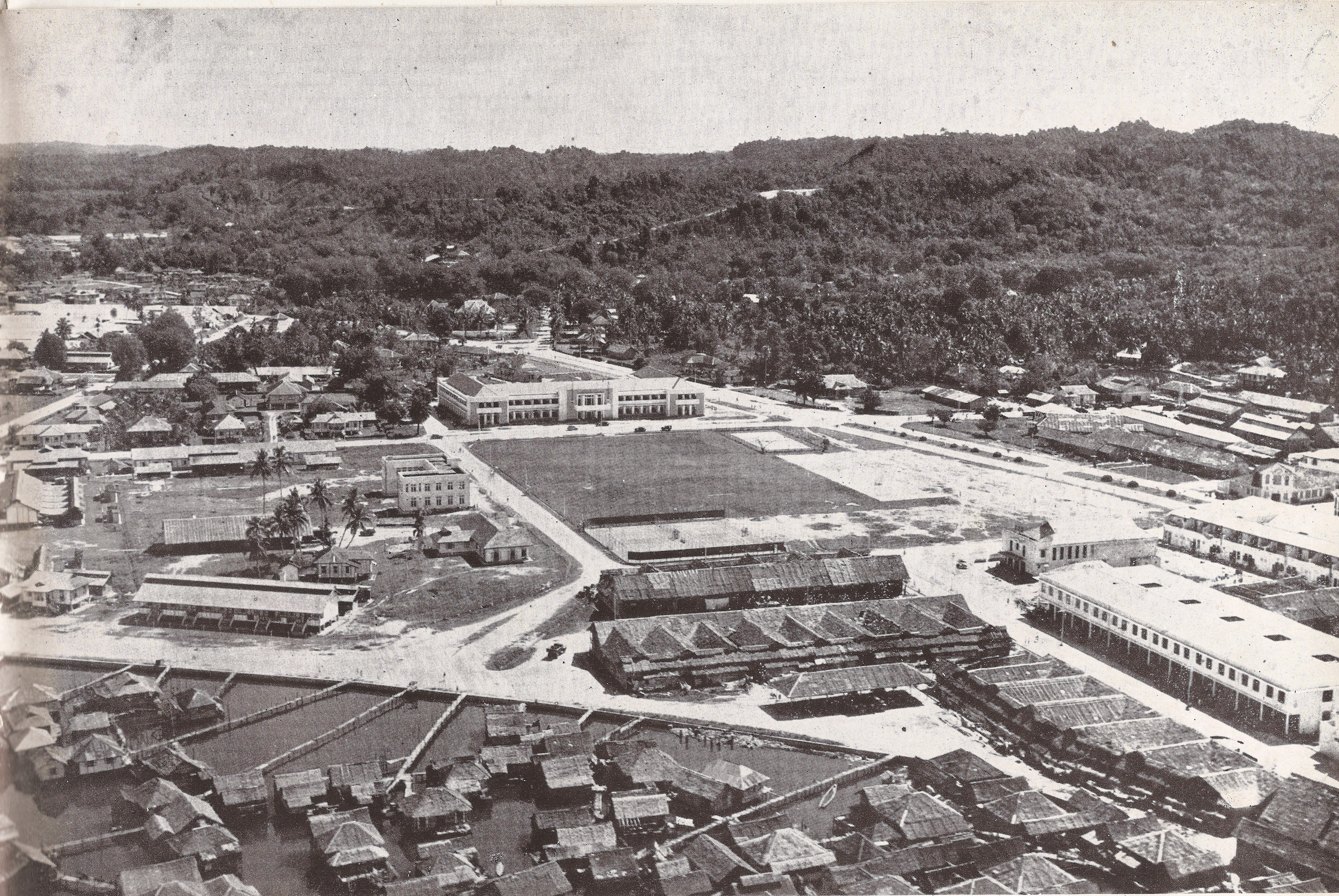 Brunei Town in 1950, during which Brunei is still under the British administration.